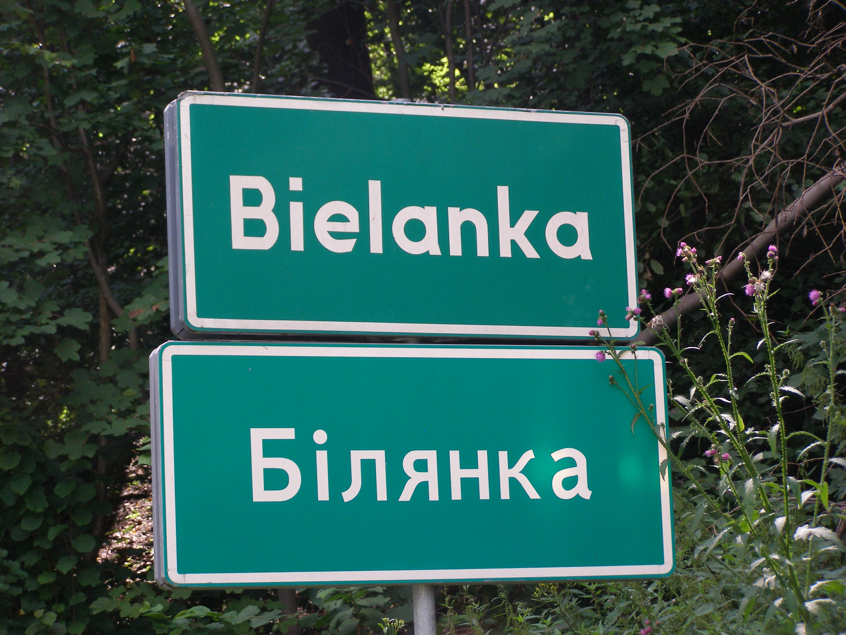 Bielanka - E-17a road sign with the village name in Polish and Lemko (Rusyn) language